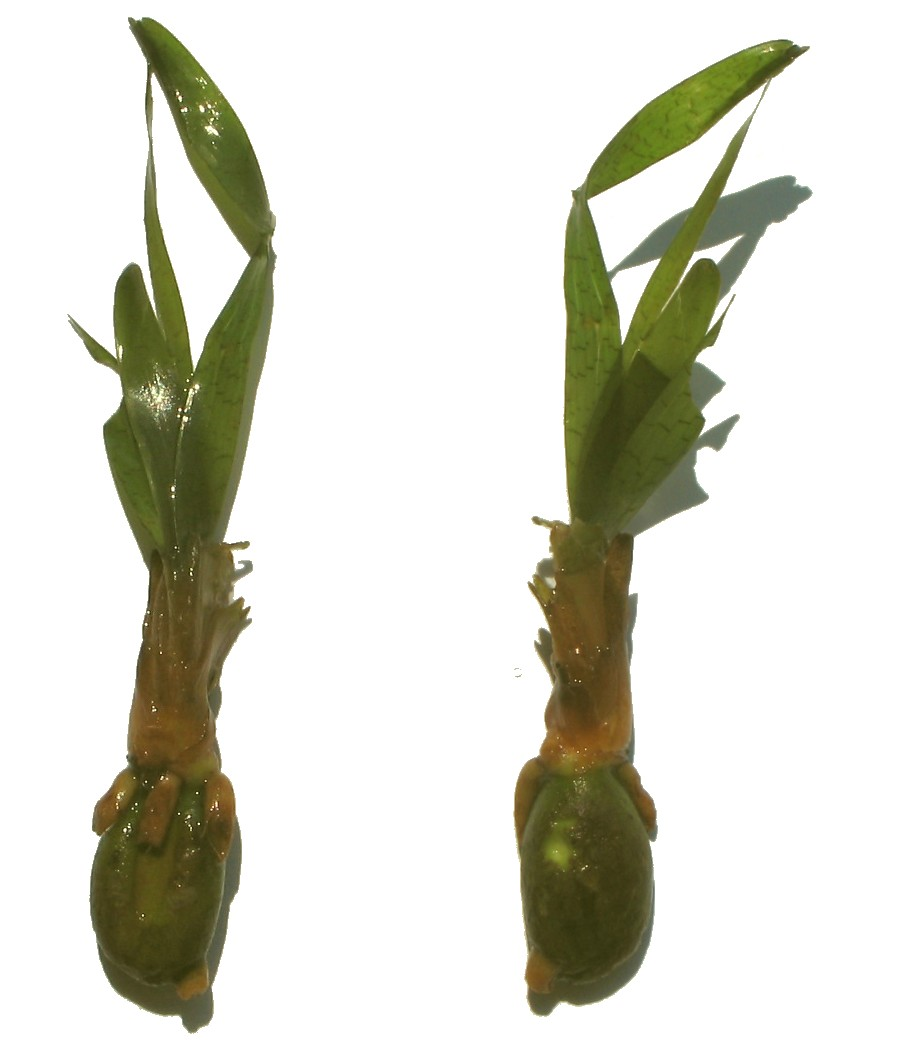 Young seedling of Posidonia oceanica. Cassis. Arena beach. Due to the total number of leaves (8 including 4 old leaves and 4 young green leaves), one can estimate its age to 1 year (june 2009), but the rooting of the plant has not been possible, probably because it has not found a suitable substrate.